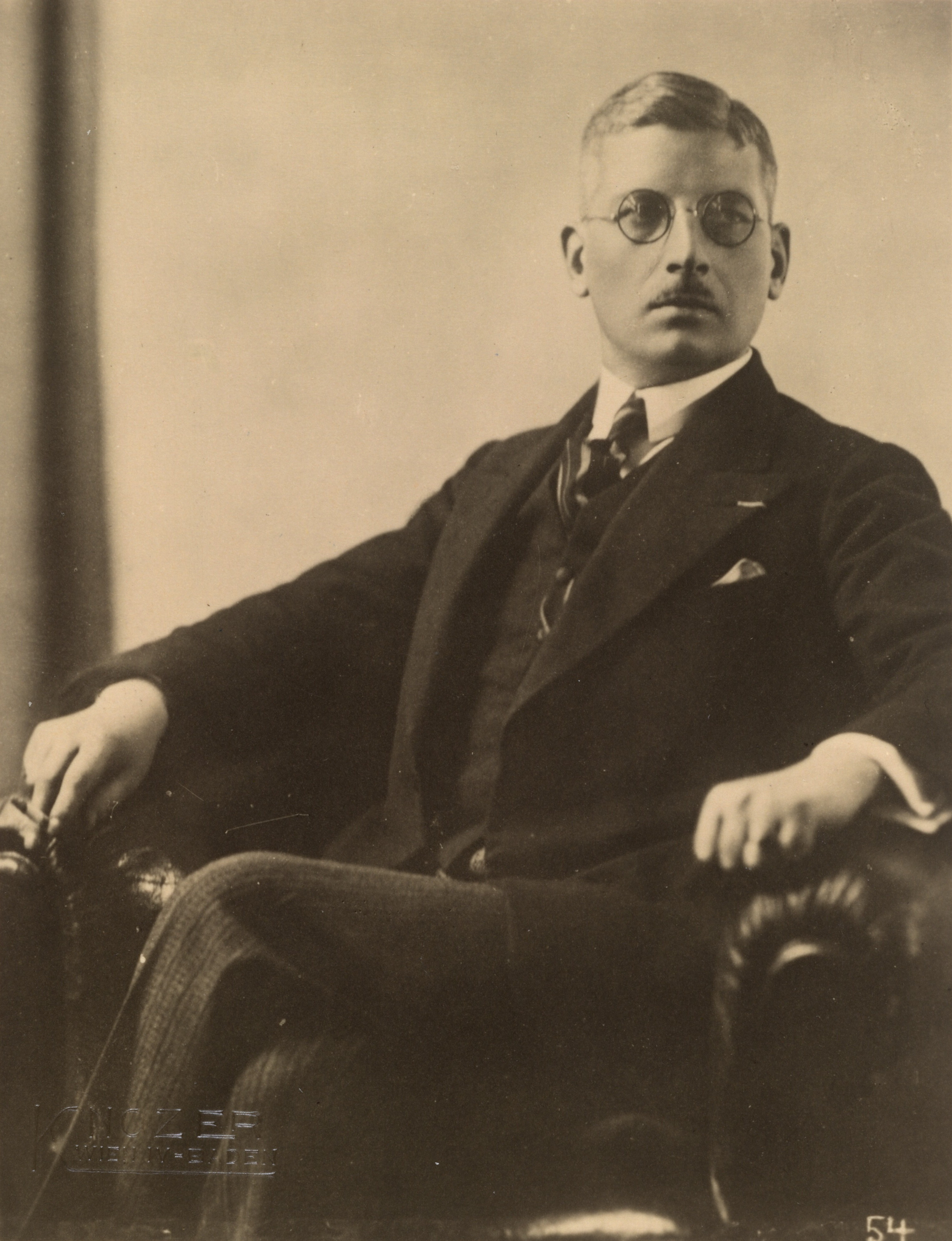 Portrait of Kurt von Schuschnigg